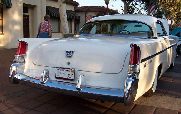 Chrysler 300B from the rear. Photo by User:Morven at the weekly Garden Grove, California car show on Friday, July 23, en:2004. nl:Afbeelding:Chrysler 300B 1956.jpg